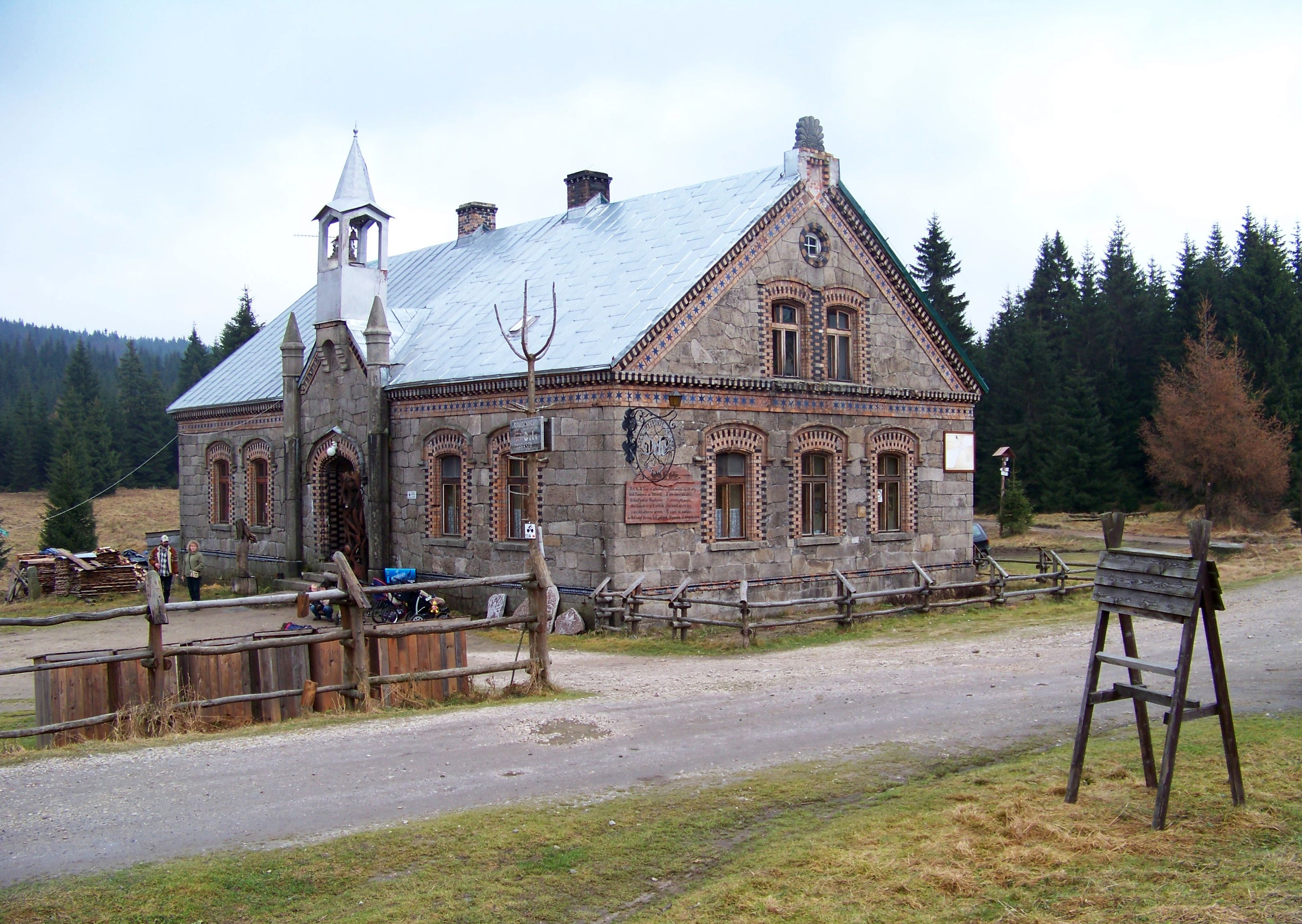 Orle (Szklarska Poręba, Poland). - Google Maps - Google Earth